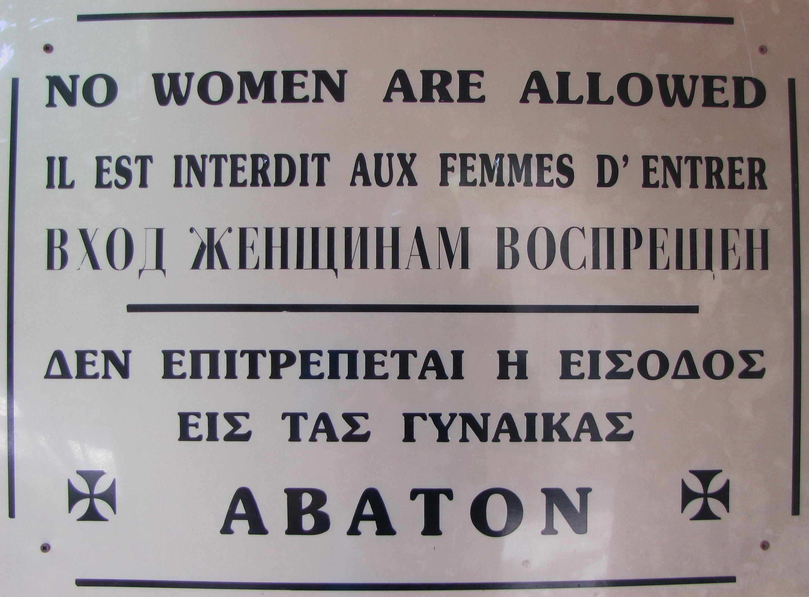 Abaton